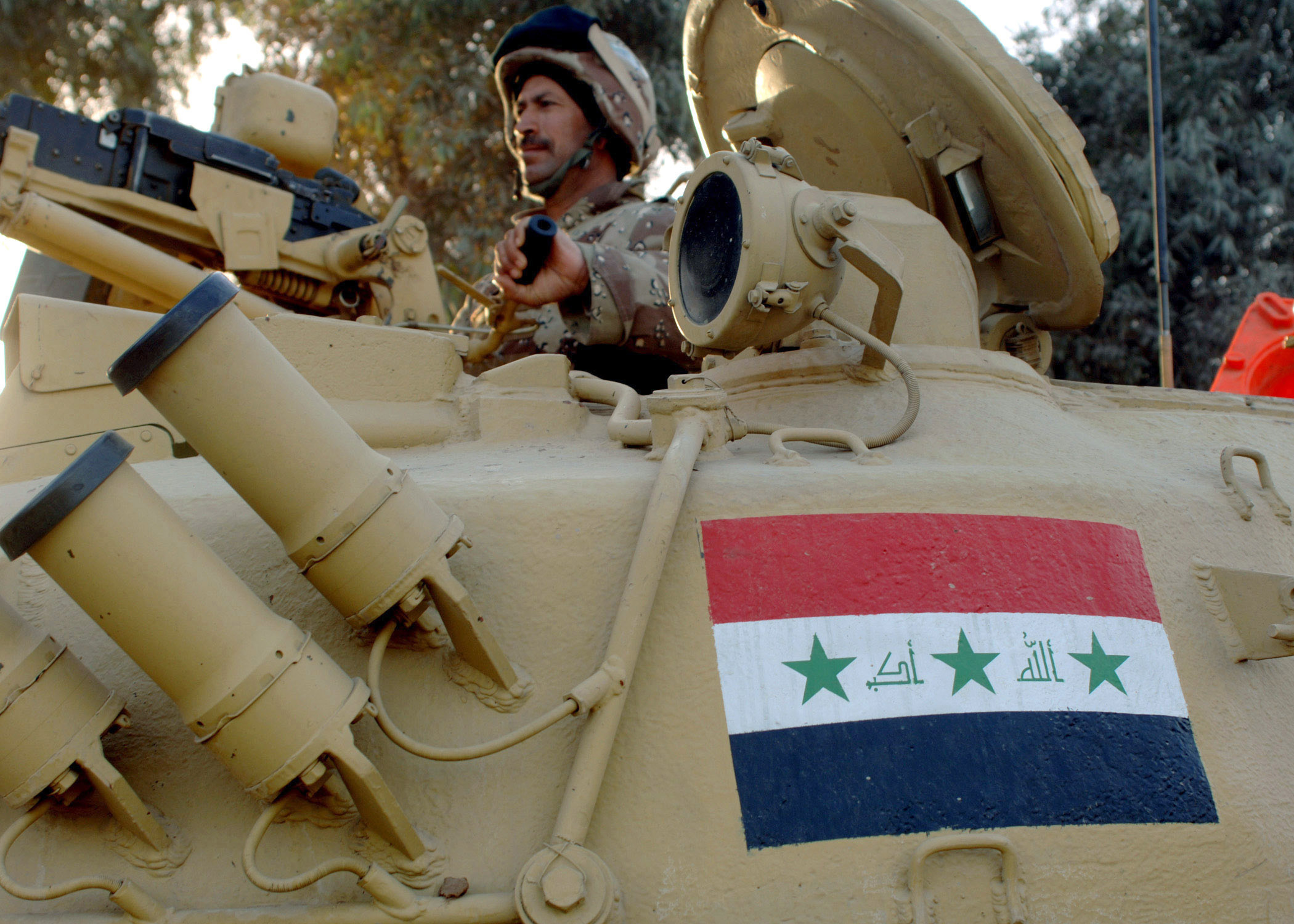 An Iraqi Army (IA) Soldier stands in the top turret of his tank as he provides security outside the main front gate at Forward Operating Base (FOB) Taji, Baghdad Province, Iraq (IRQ), during Operation IRAQI FREEDOM in support of the Global War on Terrorism (GWOT).